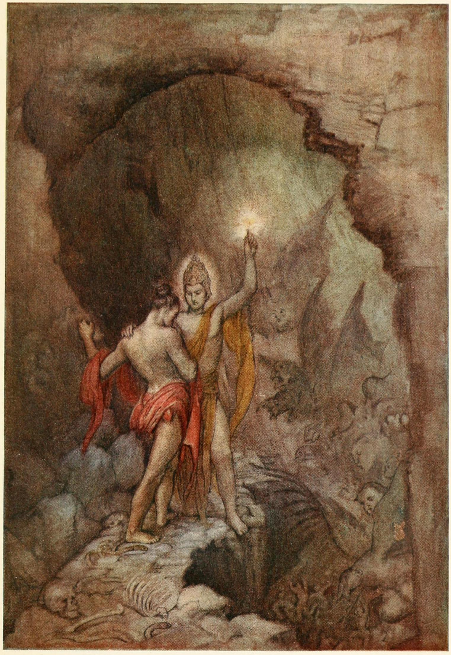 Author: Monro, W. D Publisher: New York : Thomas Y. Crowell Company Possible copyright status: NOT_IN_COPYRIGHT Language: English Call number: 600940 Digitizing sponsor: MSN Book contributor: New York Public Library Collection: newyorkpubliclibrary; iacl; americana Notes: orange pages from unnumbered illustrations.